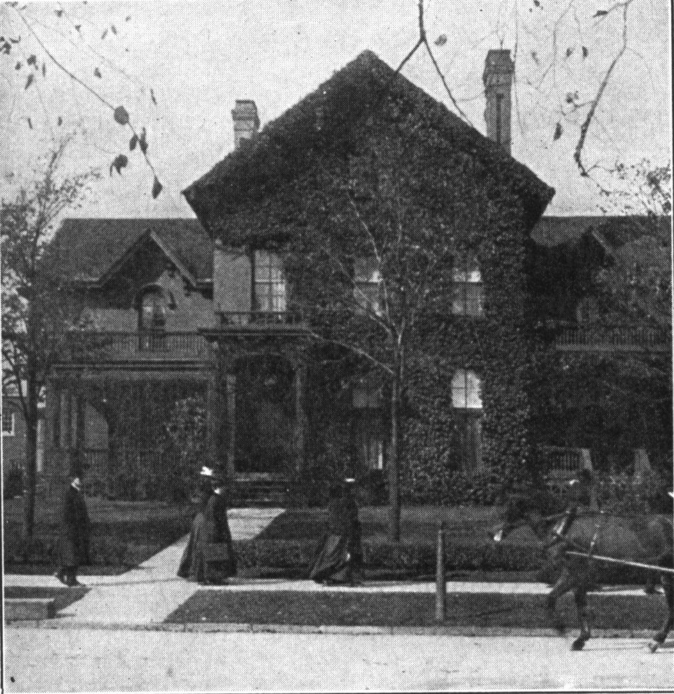 The Milburn Residence, where President McKinley died. Buffalo, N.Y. (Copyright, 1902, by Underwood & Underwood.)